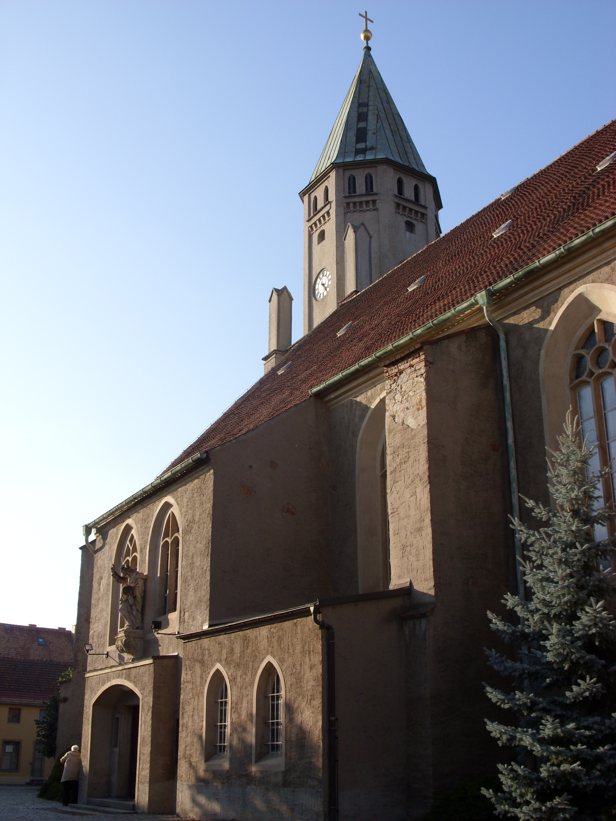 Catholic church in Wittichenau (Sorbian Kulow). The last home of Johann Schadowitz, model for the legendary wizard "Krabat".